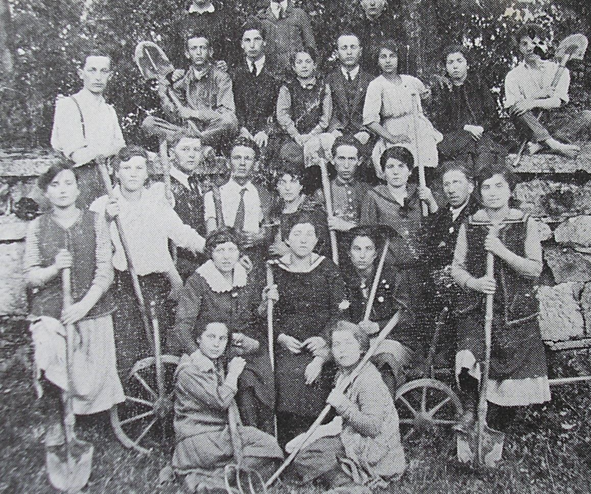 Abba Hushi on his training during his Aliyah